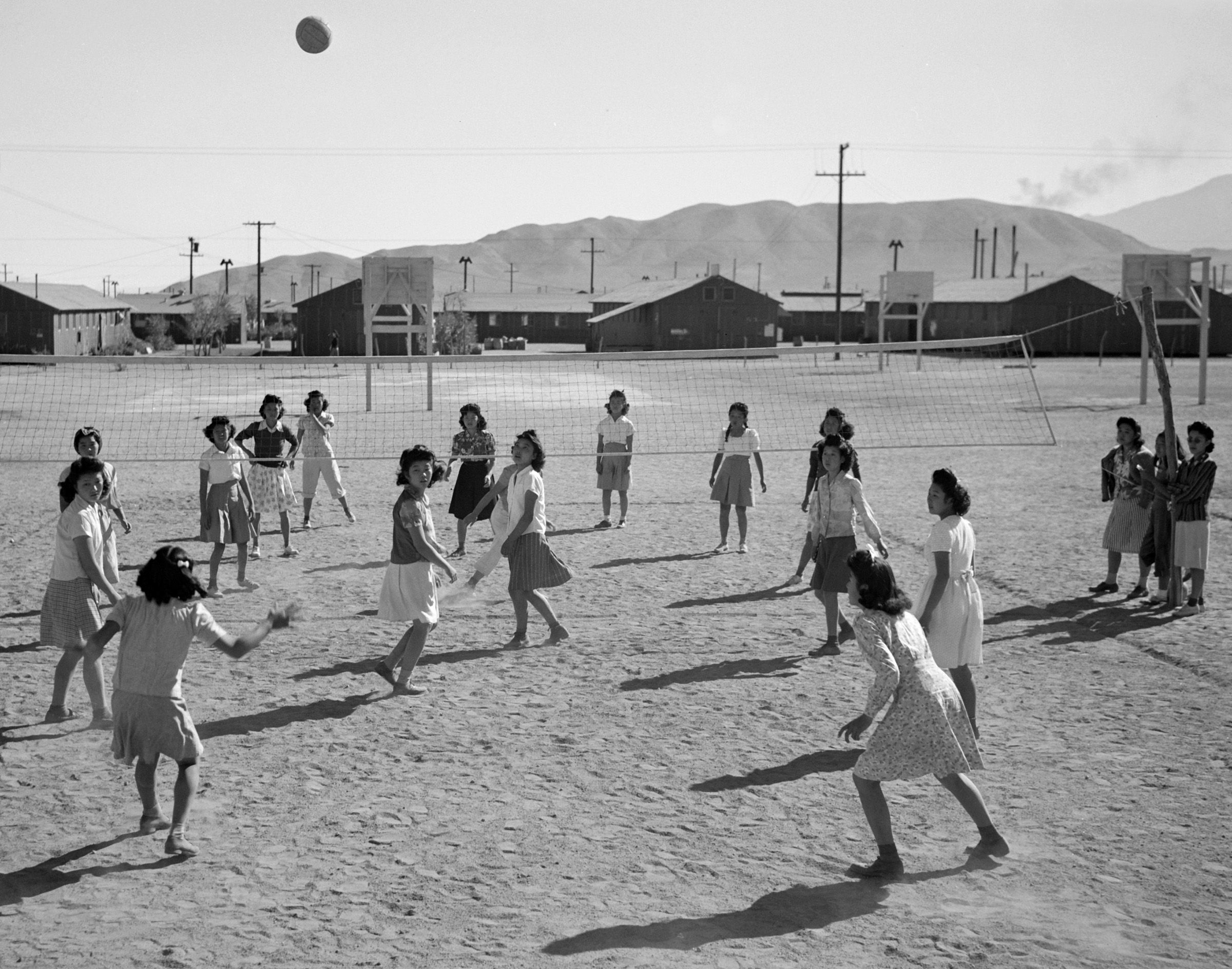 Japanese American women playing volleyball, one-story buildings and mountains in the background.